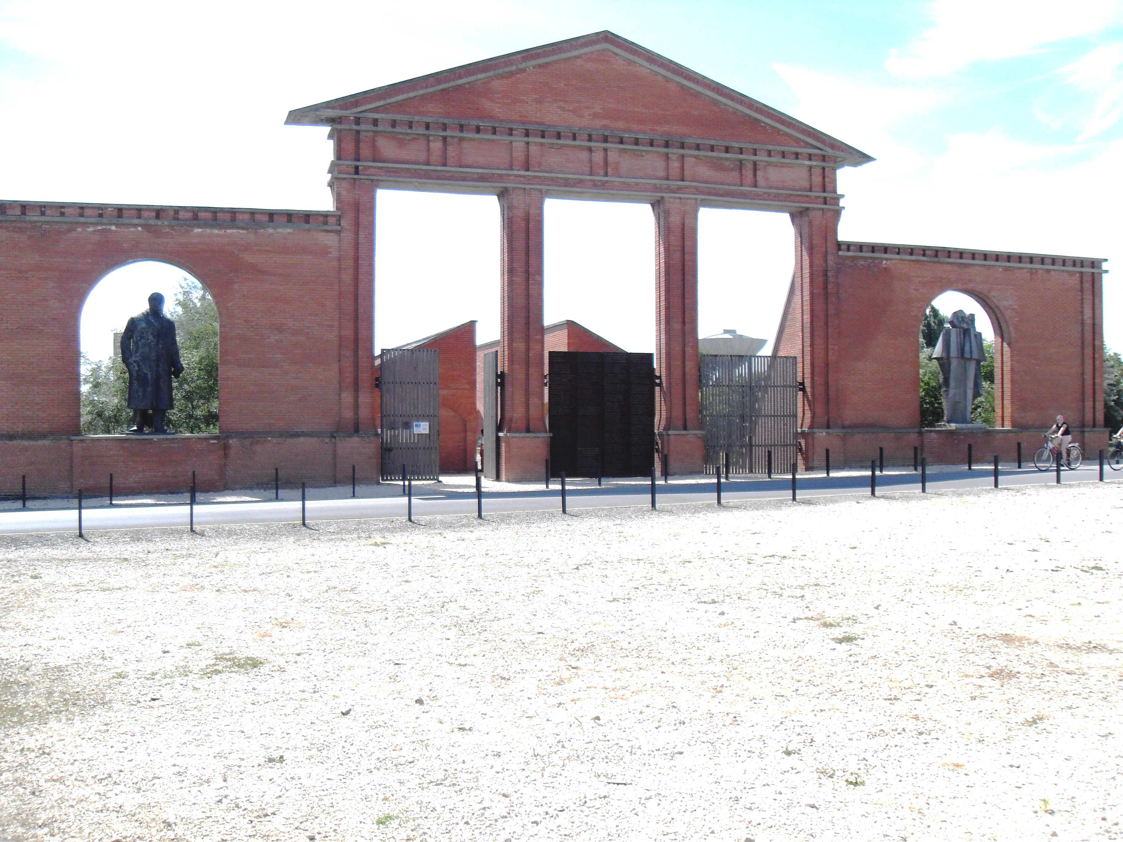 The main entrance to Memento Park, designed by architect Ákos Eleőd, resembles a monumental neoclassical building. On its left stands a 4-meter-high Lenin statue, previously in Dozsa Gyorgy Street. On its right stands the cubist Marx & Engels sculptural group, formerly at the Communist Party headquarters in Budapest, in Jászai Mari Square.